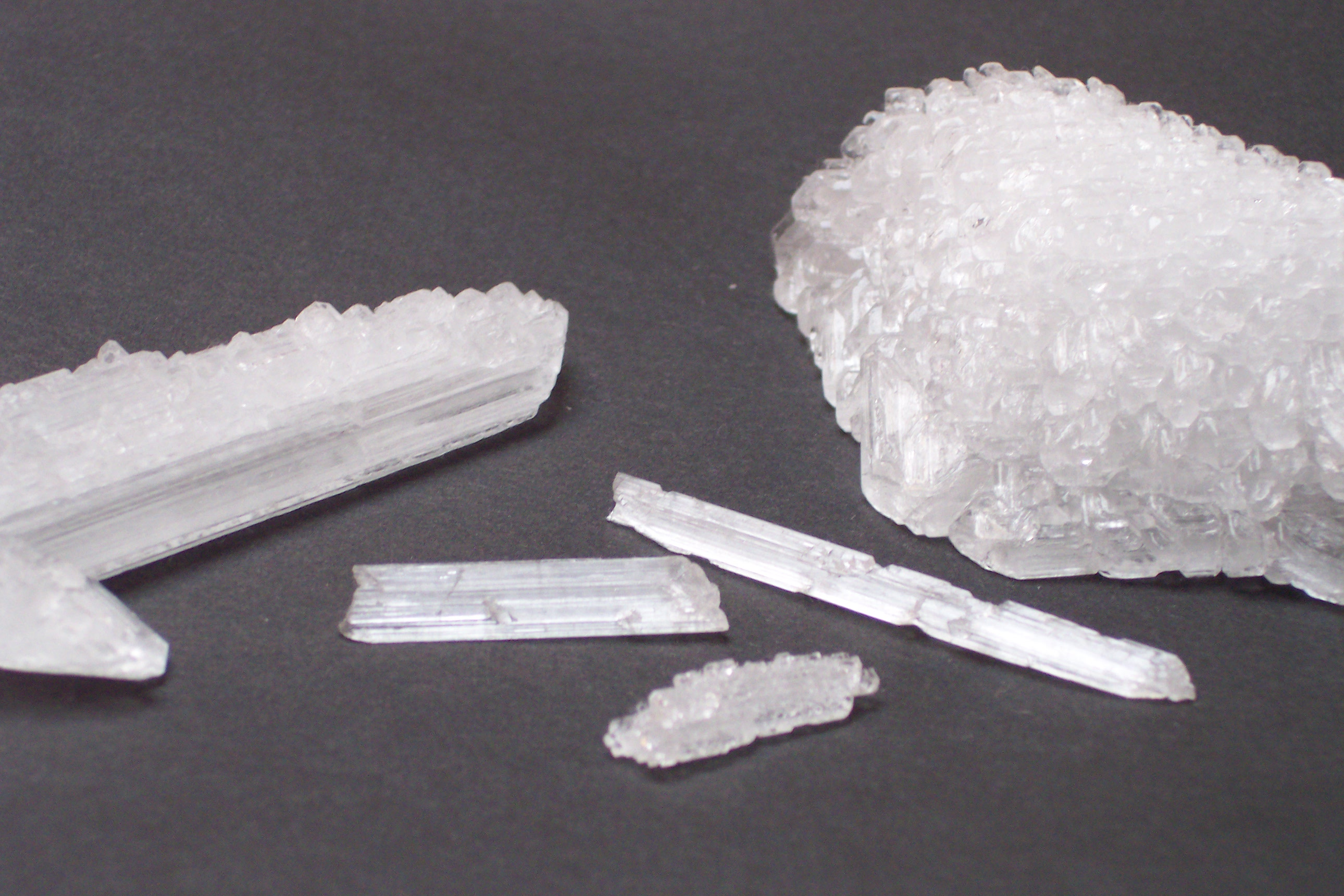 Sodium acetate cristal